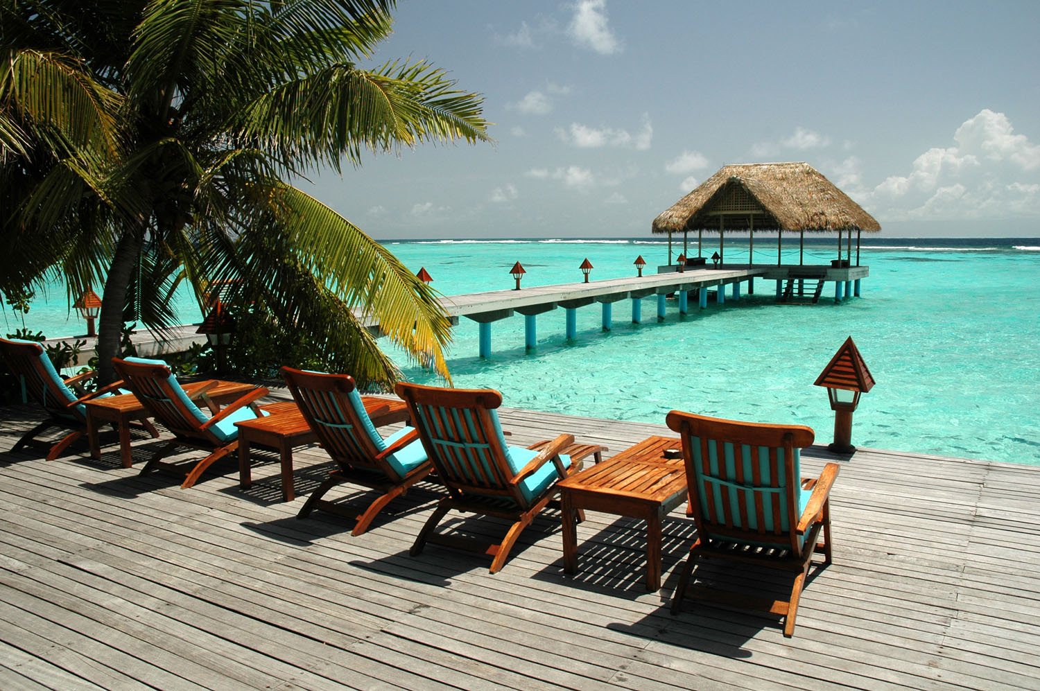 The Maldivian island and resort of Madoogali taken from the bar terrace.